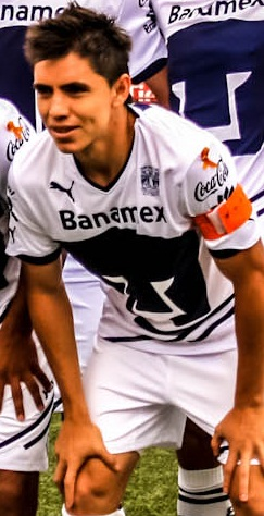 UNAM player Efraín Velarde